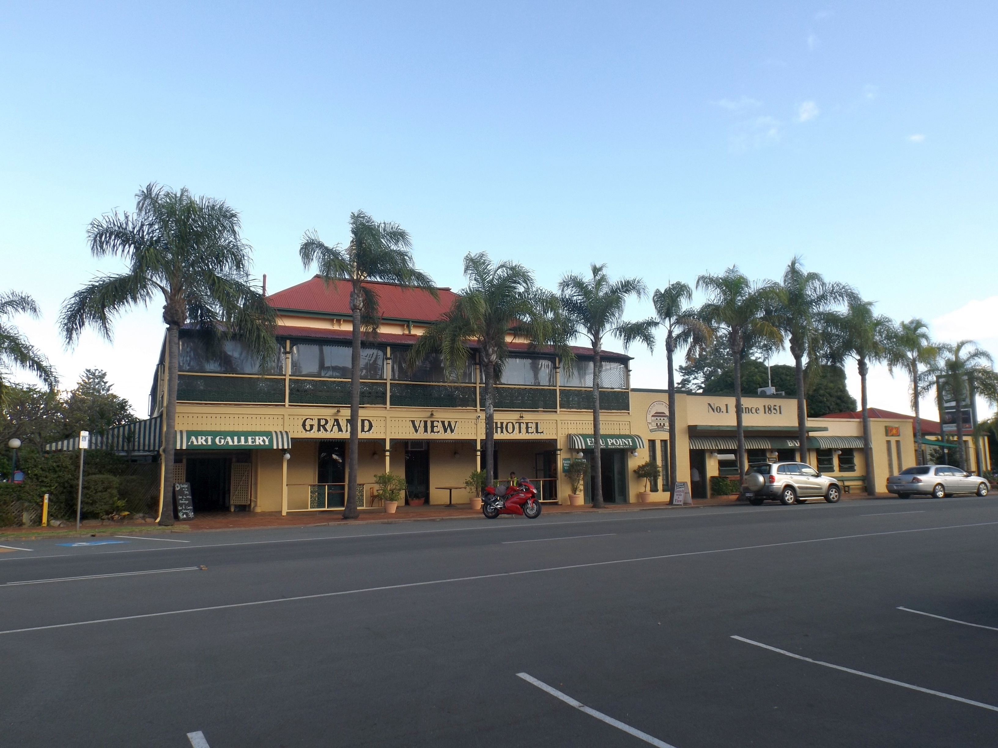 Photo of Grand View Hotel and North Street at Cleveland, City of Redland, Queensland, Australia.